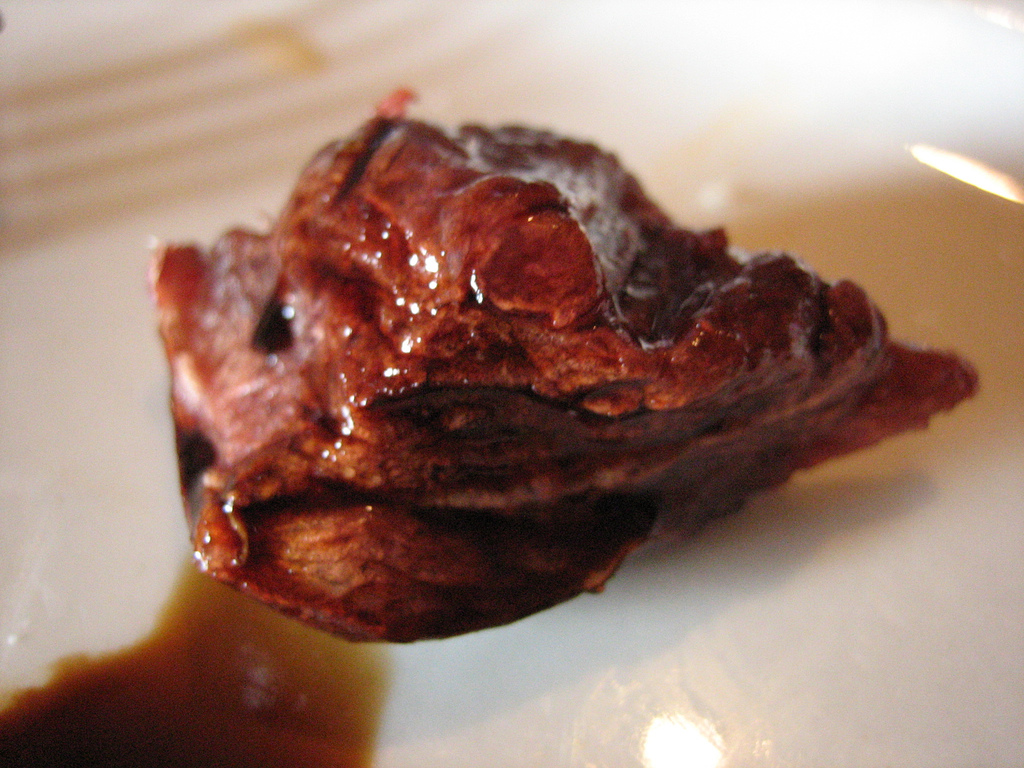 Close up of raw caribou meat